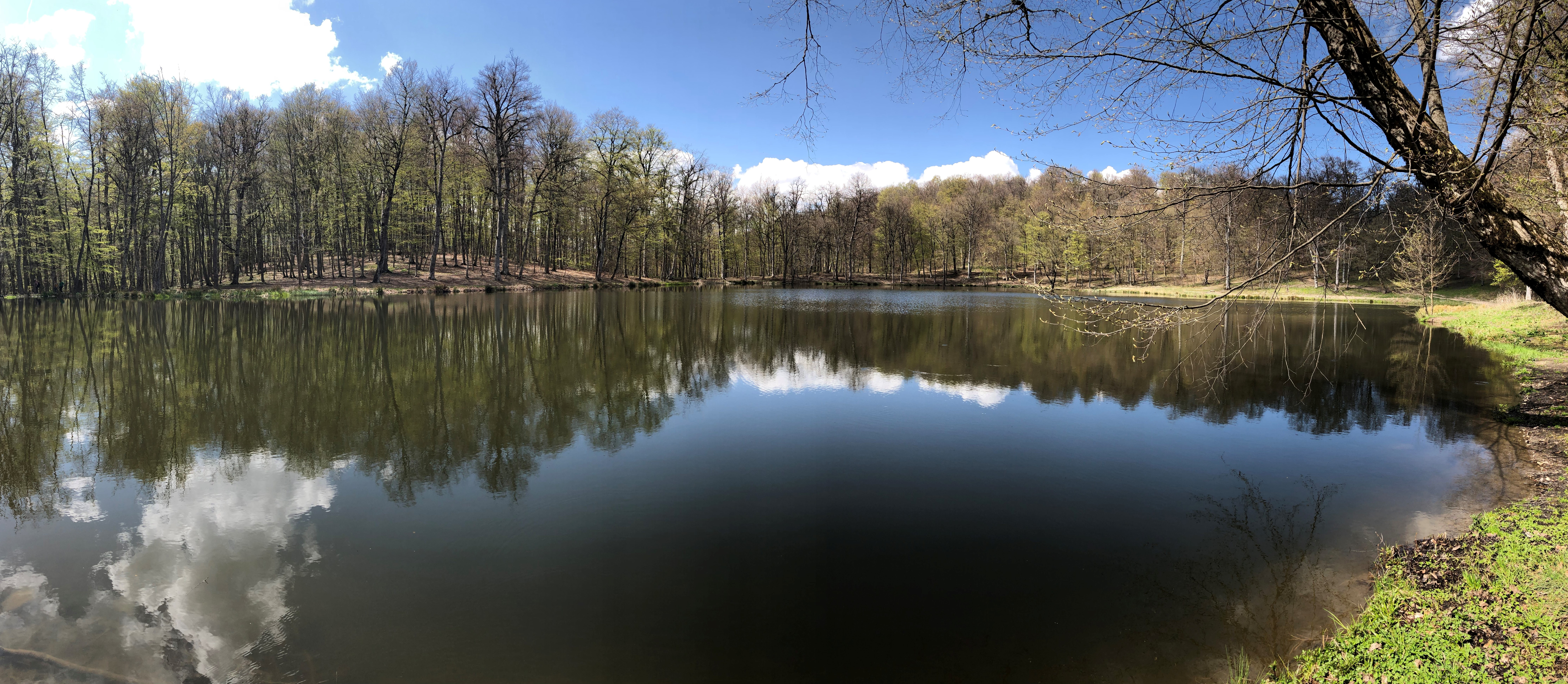 Gosh Lake, Tavush Province, Armenia